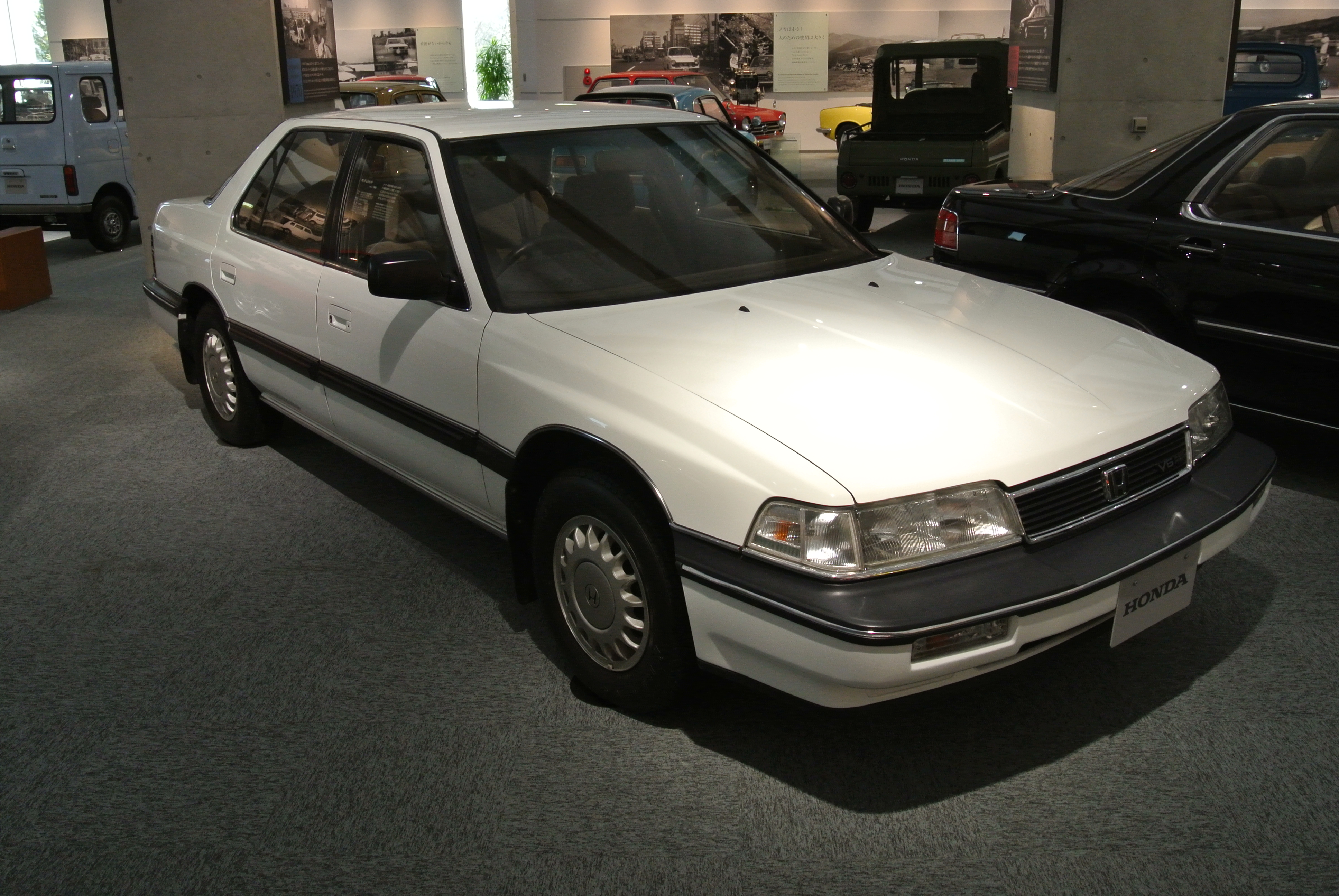 1985 Honda Legend in the Honda Collection Hall.